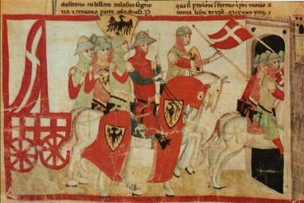 Frederick II, Holy Roman Emperor: Battle of Cortenuova (1237) from the Nuova Cronica of Giovanni Villani